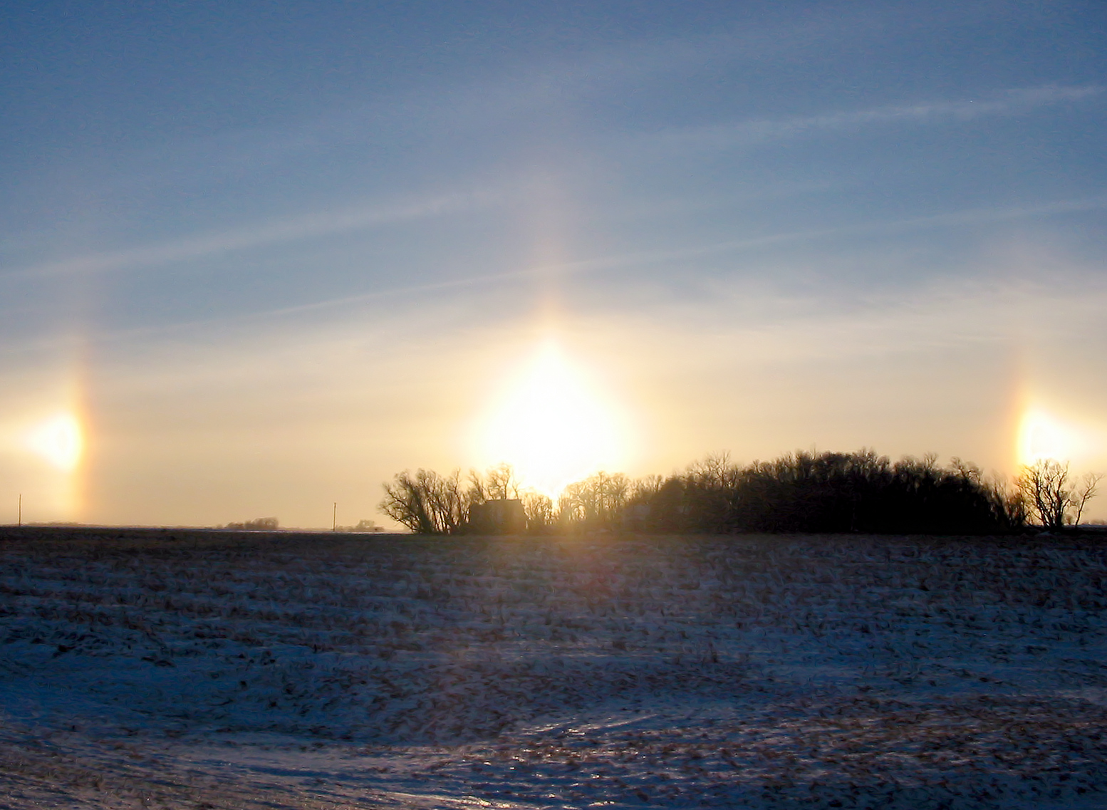 Sun dogs during sunset outside of New Ulm, Minnesota, United States. Note the sun dogs on either side of the actual sun, with halo arcs passing through each parhelion.